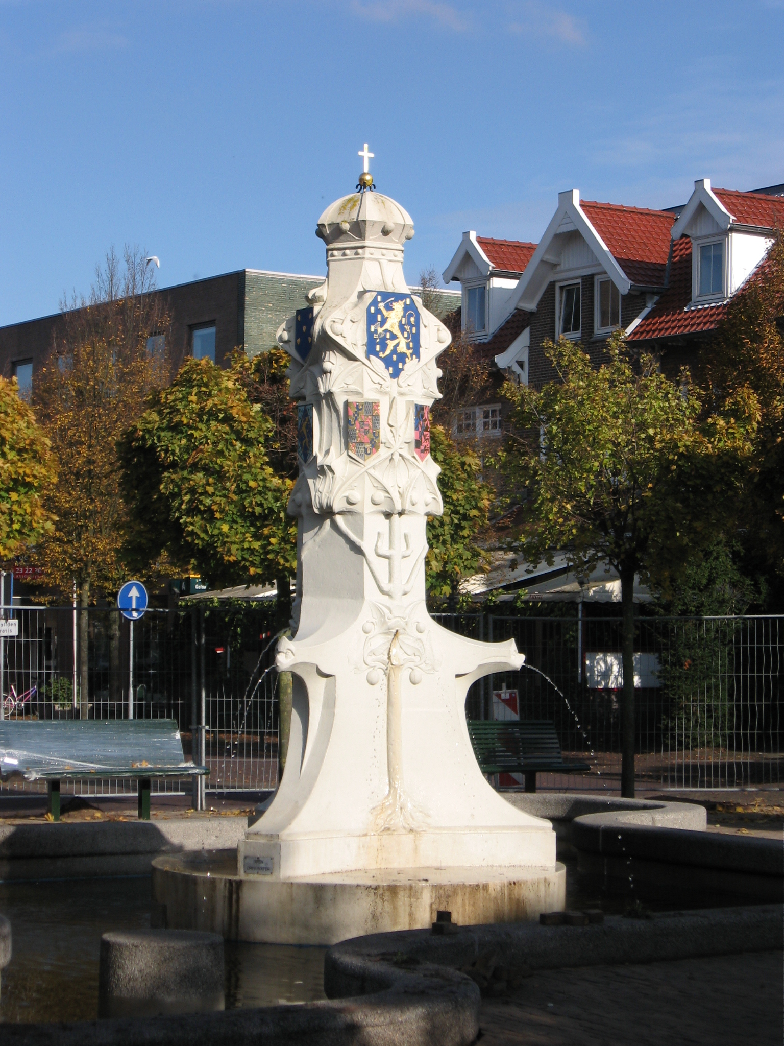 Fontein, Bussum